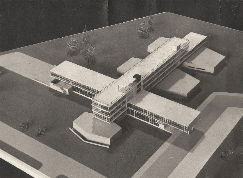 J. Bakema. Studio Wereldomroep. Hilversum, 1955-1956. Maquettefoto. Collectie NAi, BAKE ph21